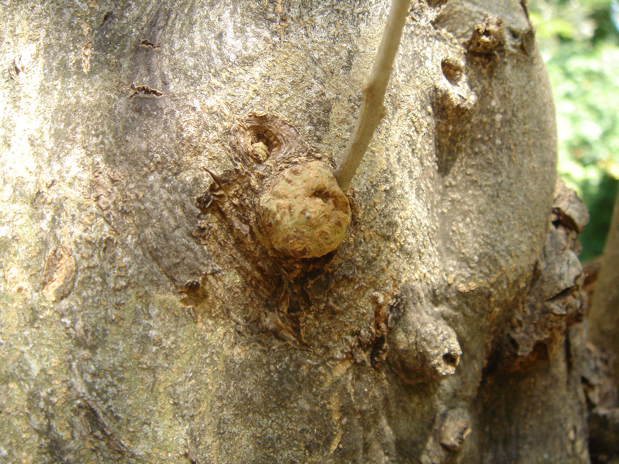 Infection of olive tree by Pseudomonas syringae subsp. savastanoi pv. oleae / found in Greece, Pilion